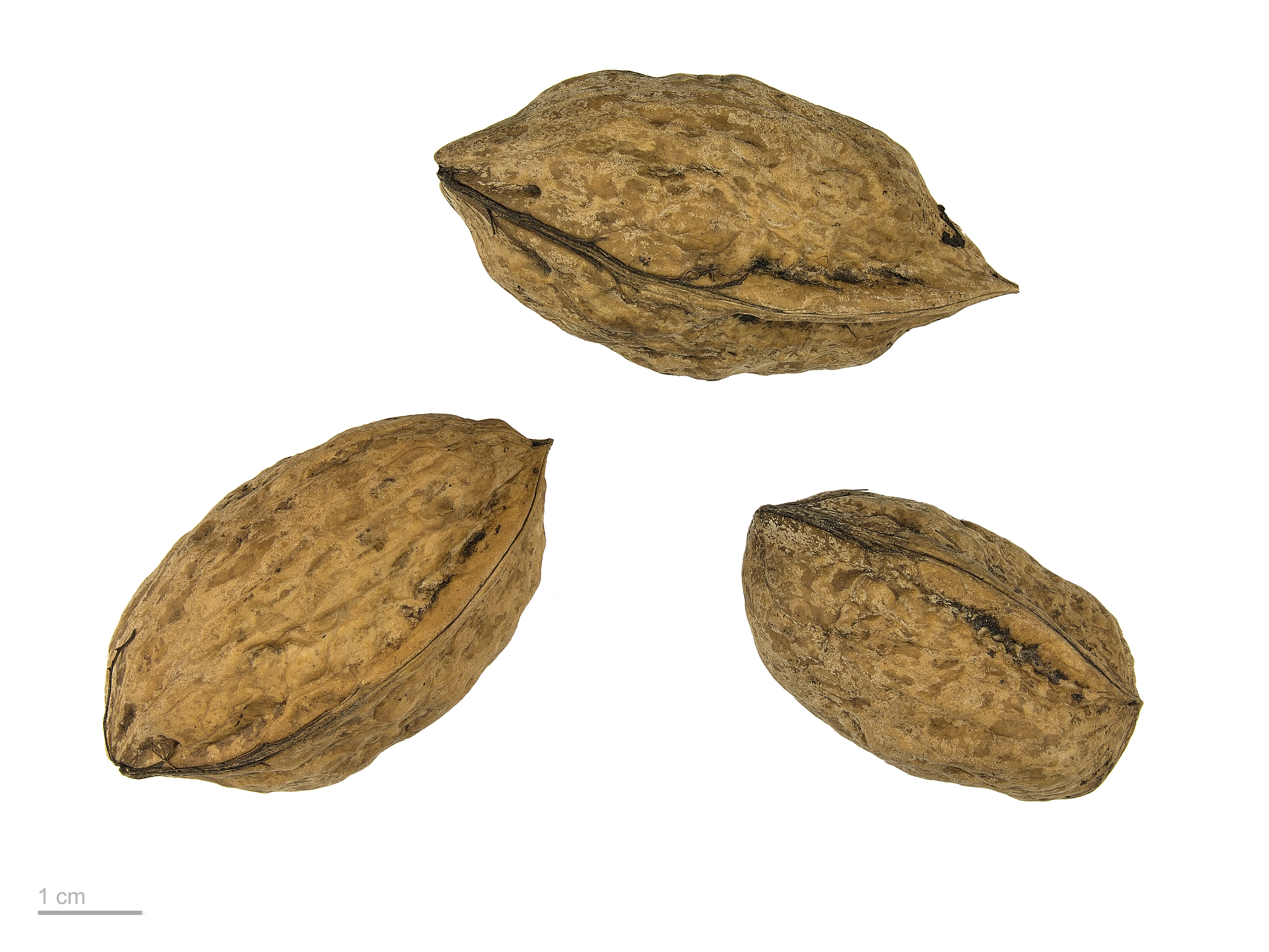 Persian walnut , fruits and seeds